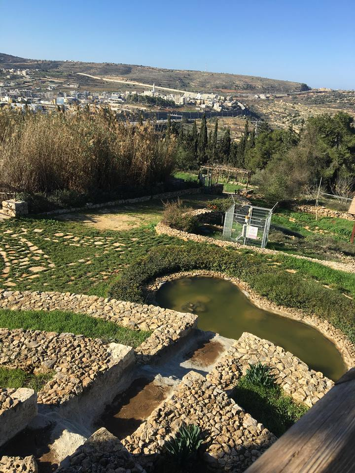 Talita National Center in Bethlehem